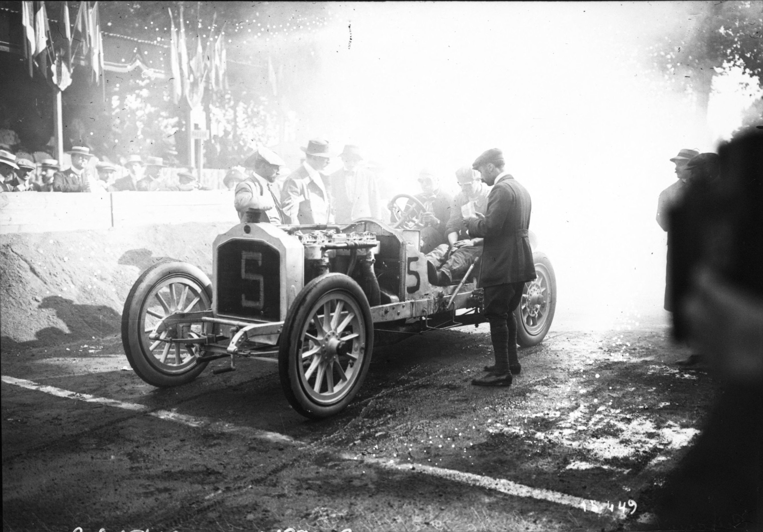 Arthur Duray at the 1911 Grand Prix de France at Le Mans.